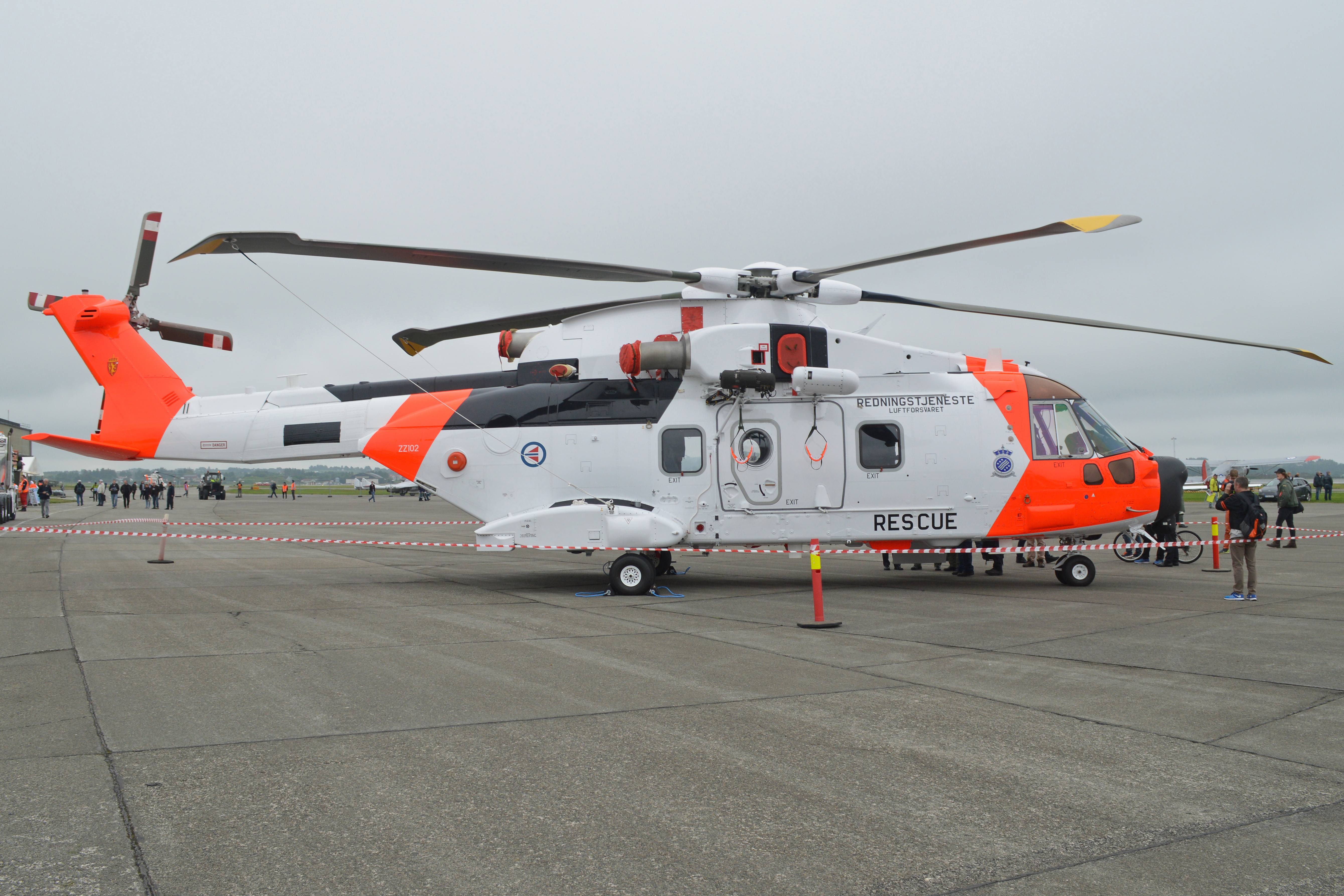 c/n 50265. Built 2017. Norway has ordered sixteen AW101 helicopters to replace its current Sea King fleet. While in full Norwegian colours, this example had not yet been handed over and was being operated by AgustaWestland using the British military serial ZZ102. When handed over it will become ‘0265’ in Norwegian service. On static display at the 2017 Sola Airshow, Stavanger Airport, Sola, Norway. 10th June 2017